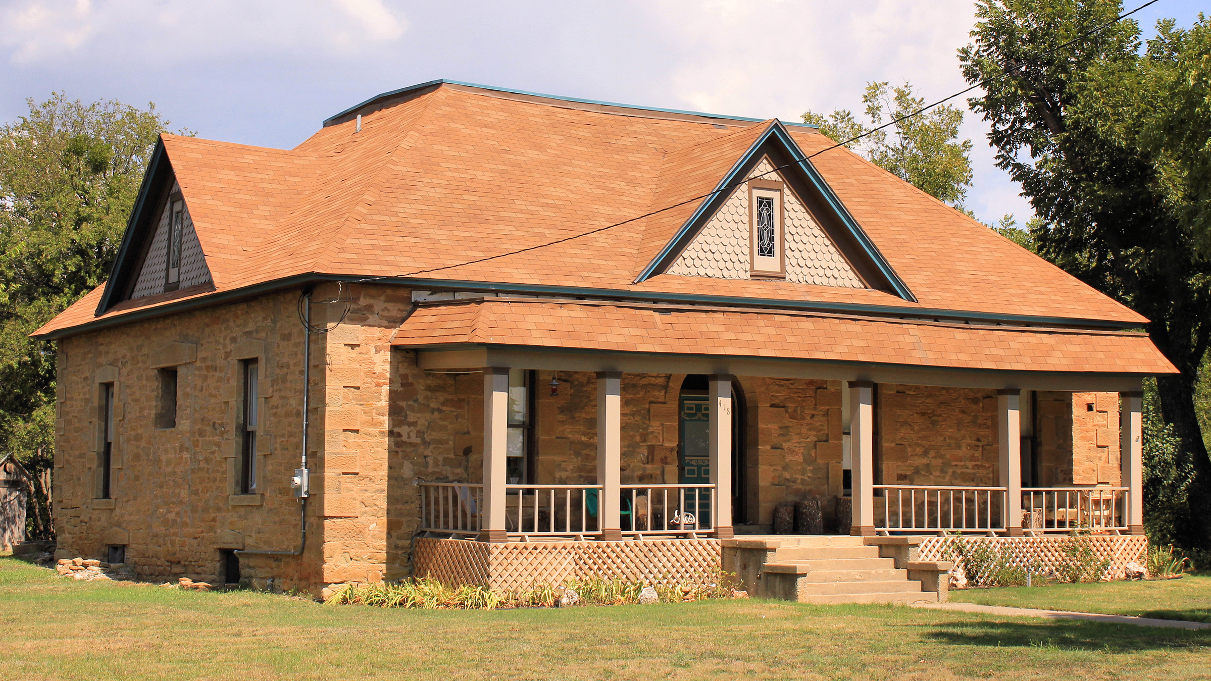 Greenleaf Fisk House, Brownwood, Texas, United States. The house was listed on the National Register of Historic Places on February 25, 2004.